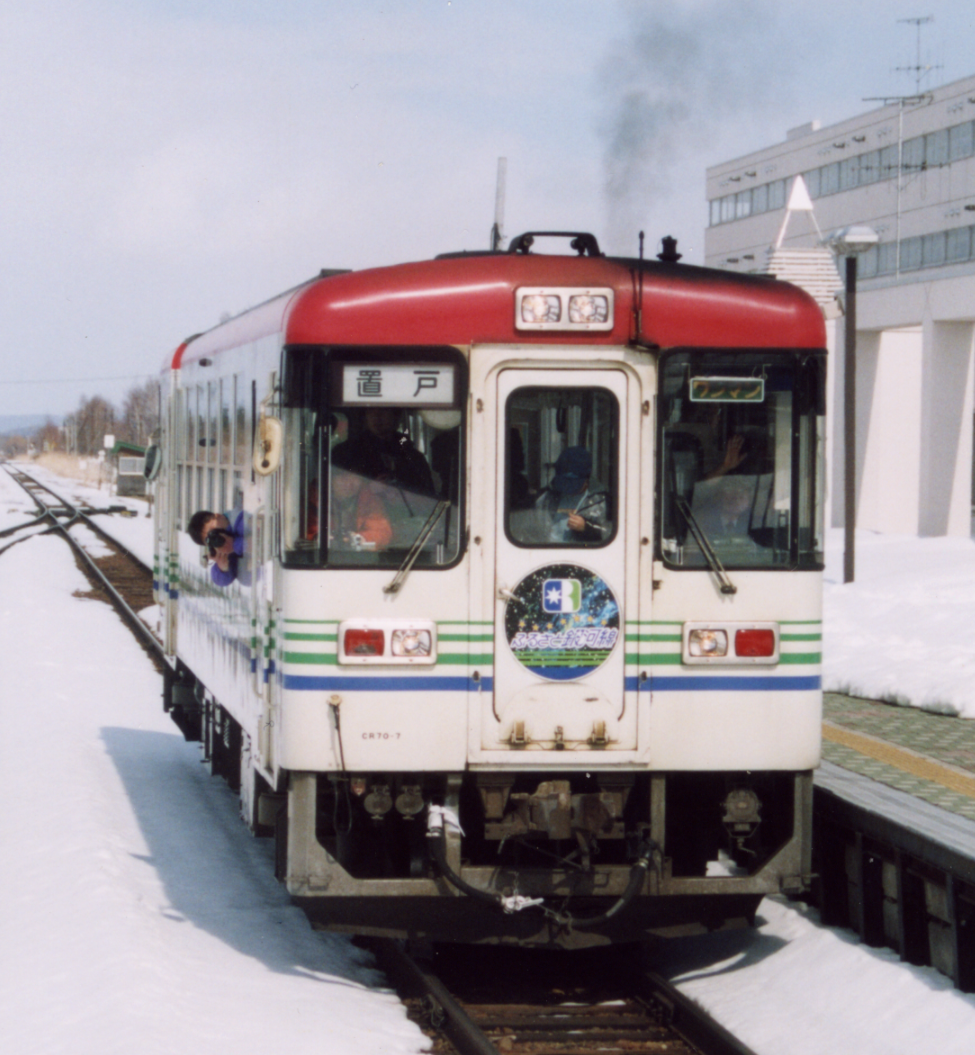 Hokkaido Chihokukogen Railway CR70 Type Diesel Car (CR70-7) (Hokkaido, Japan). Photographed by myself using Asahi-Pentax SFXn + 28-80mm F3.5-4.5 at Kamitokoro Station.